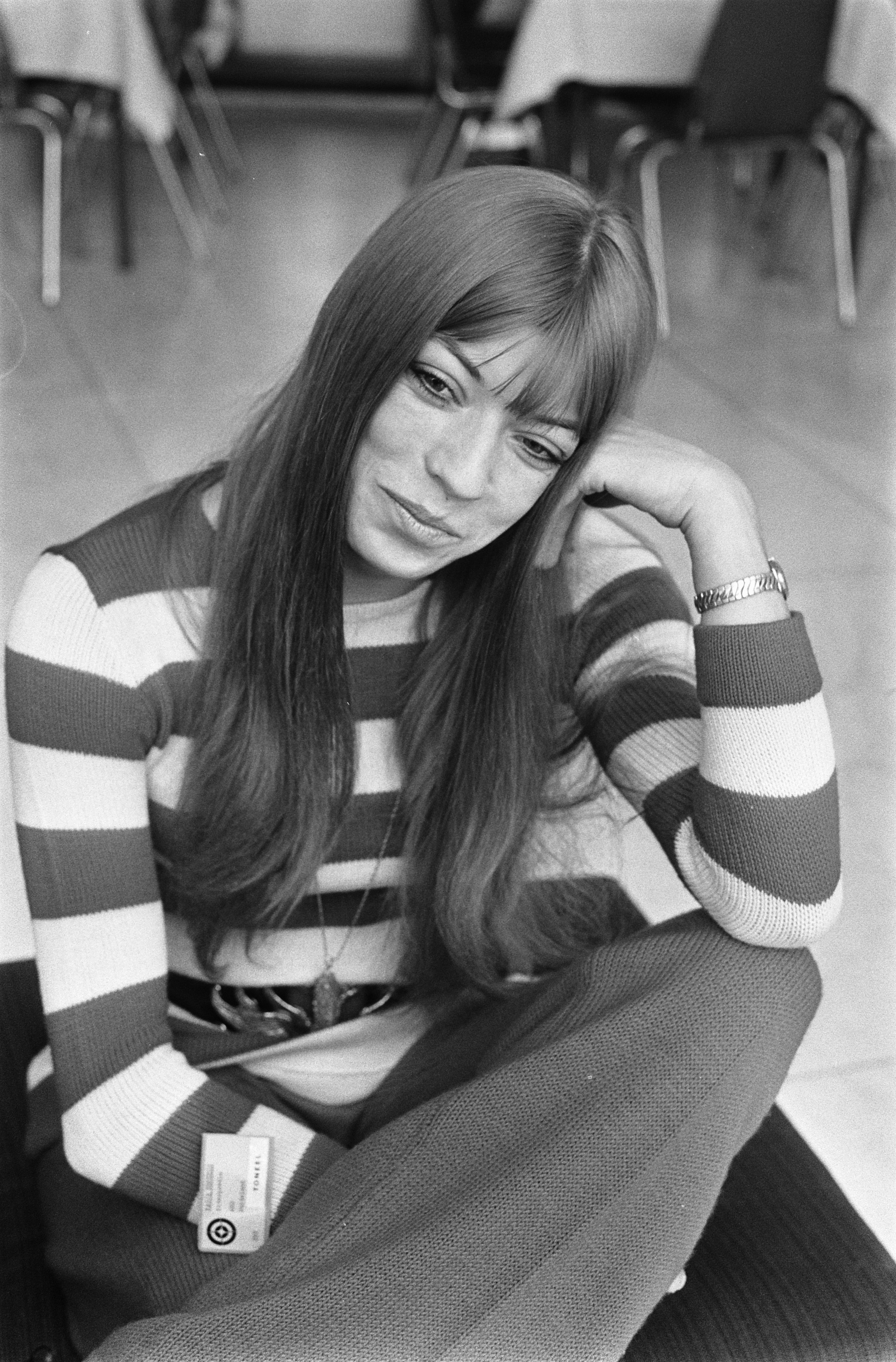 Katja Ebstein at a Eurovision rehearsal day